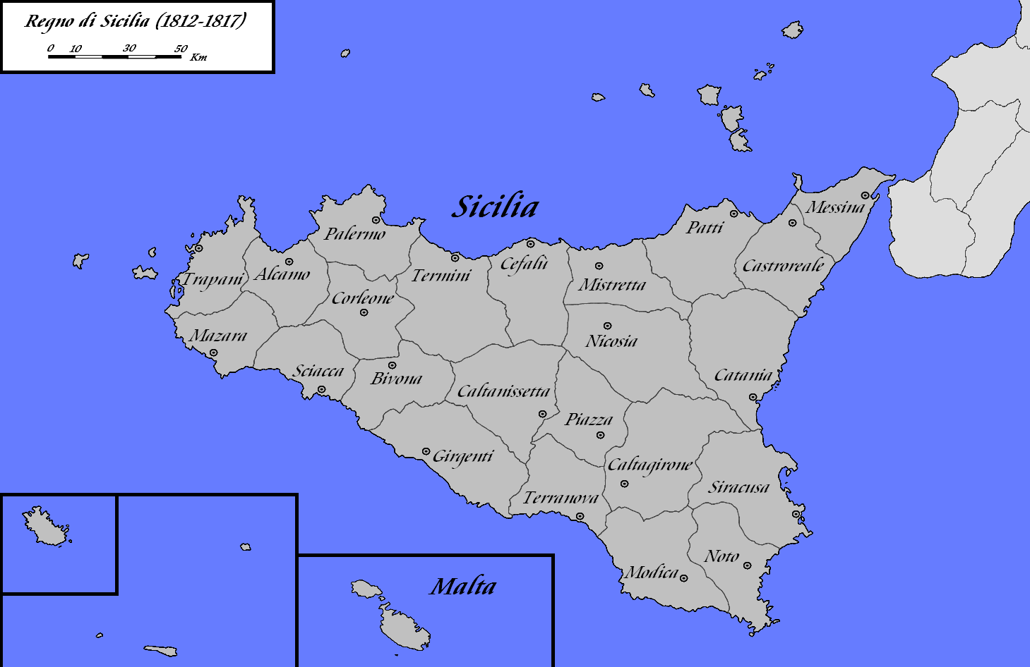 Administrative districts of Sicily between 1812 to 1817.